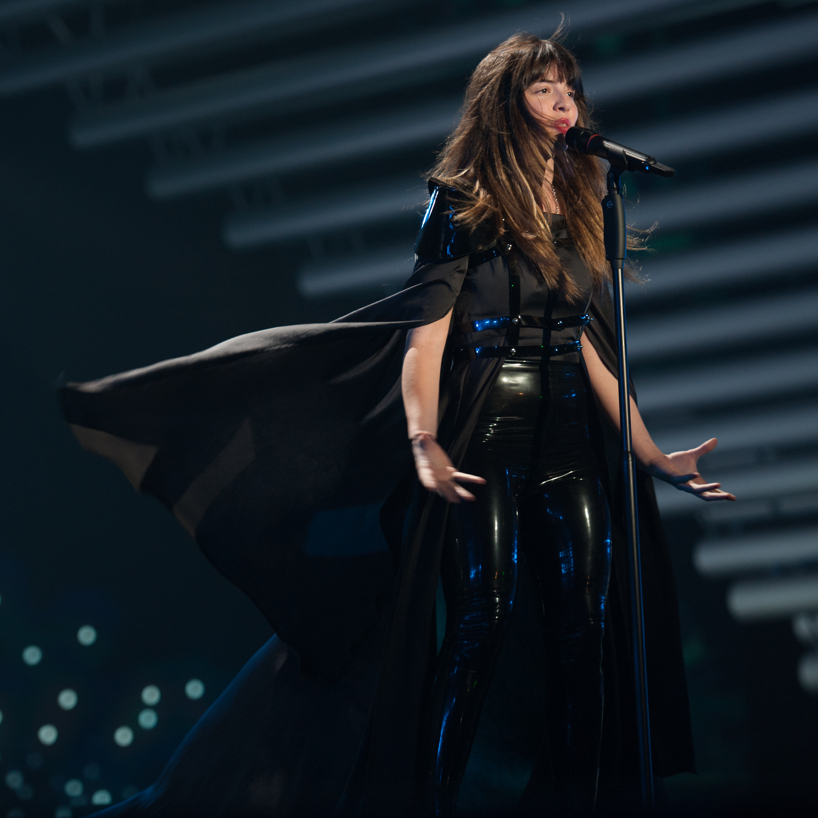 Eurovision Song Contest Vienna 2015: Leonor Andrade